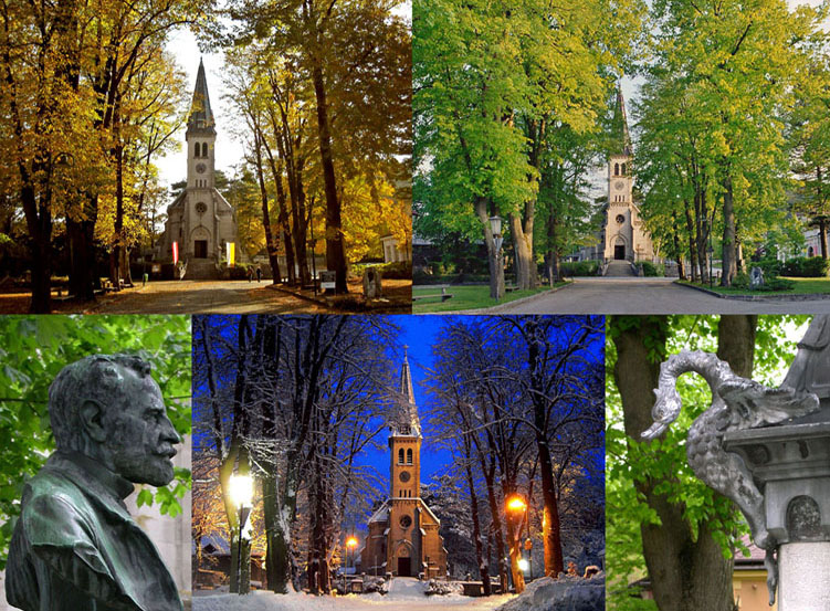 ensemble of nature and neo-gothic architecture, a row of trees leading to a church, forming an entrance situation or "vegetable cathedral" in front of the church which is situated in Weissenbach an der Triesting, Lower Austria, collage including the statue of Adolf Baron Pittel and a Detail from the Barometer-Station